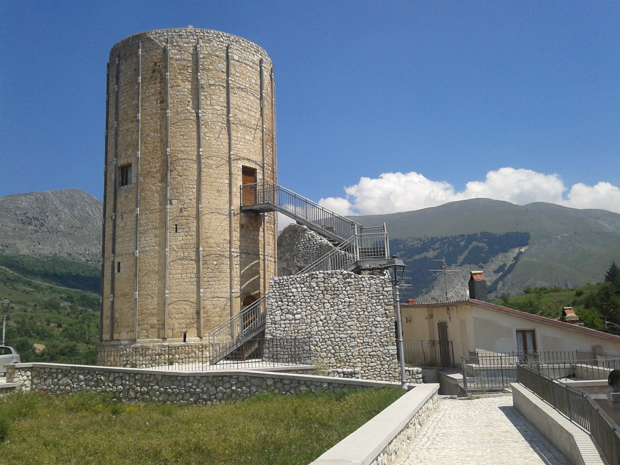 Tower of Aielli, Abruzzo, Italy